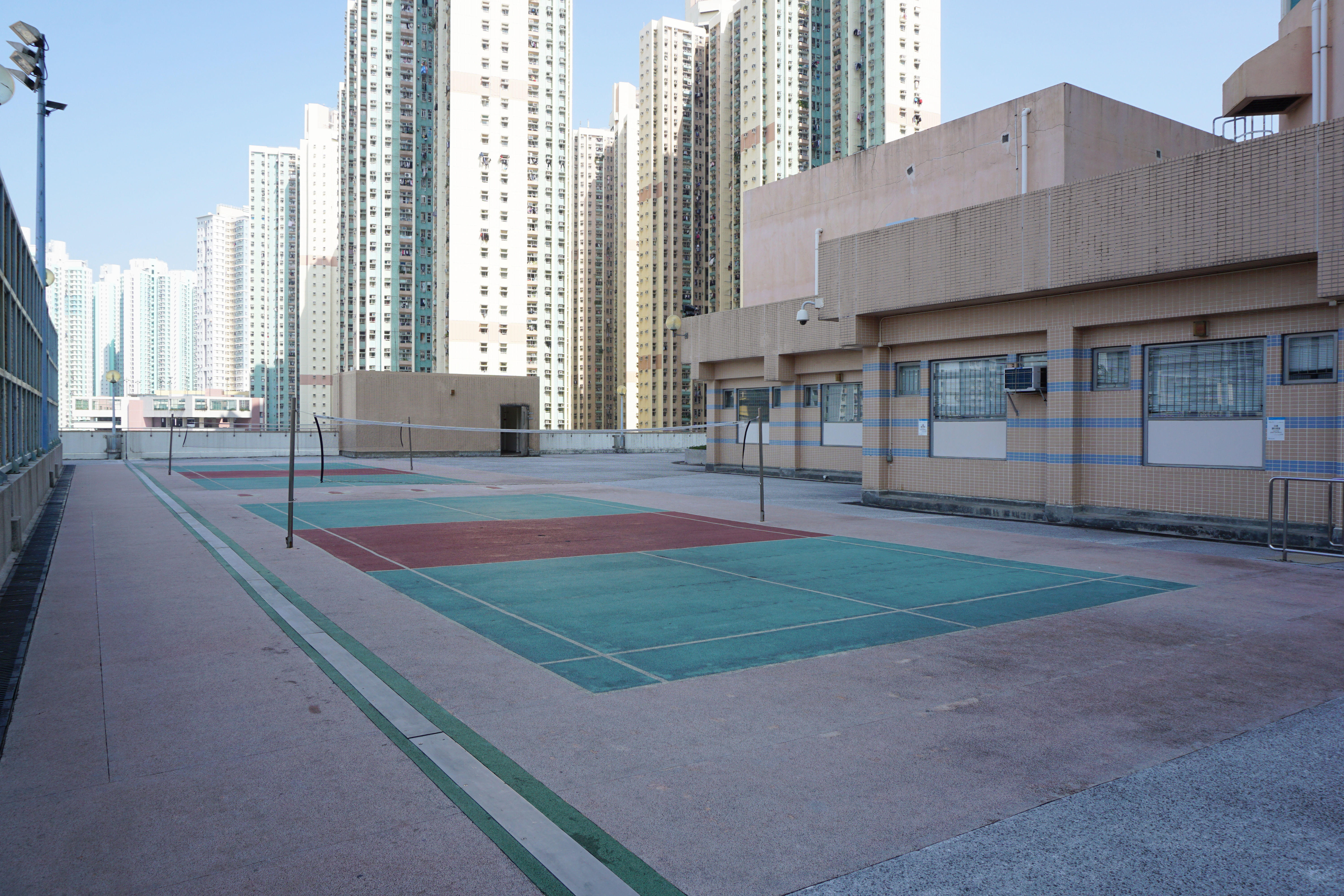 Tin Fu Court in Tin Shui Wai, Hong Kong.